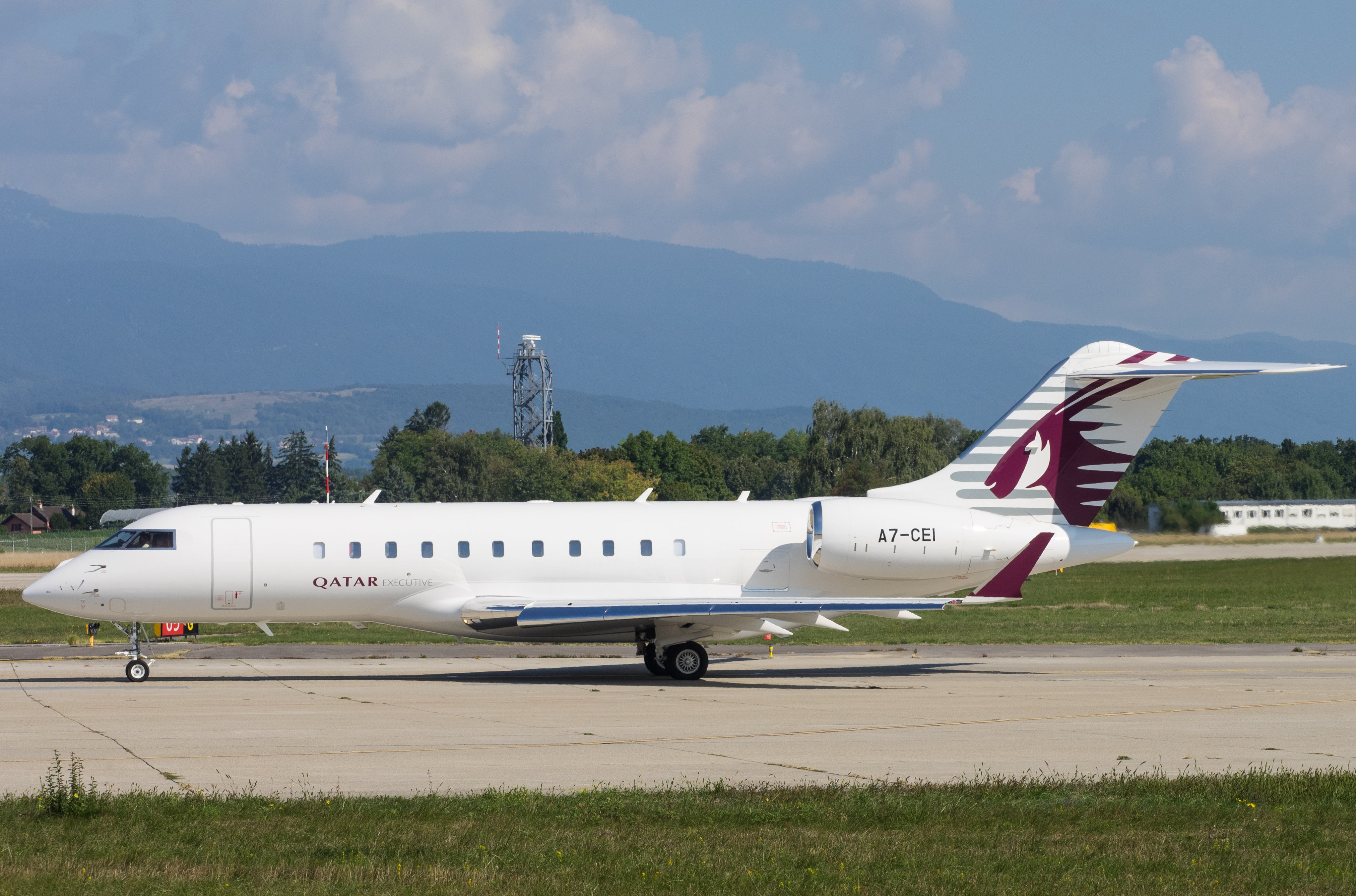 GVA 09.09.2015